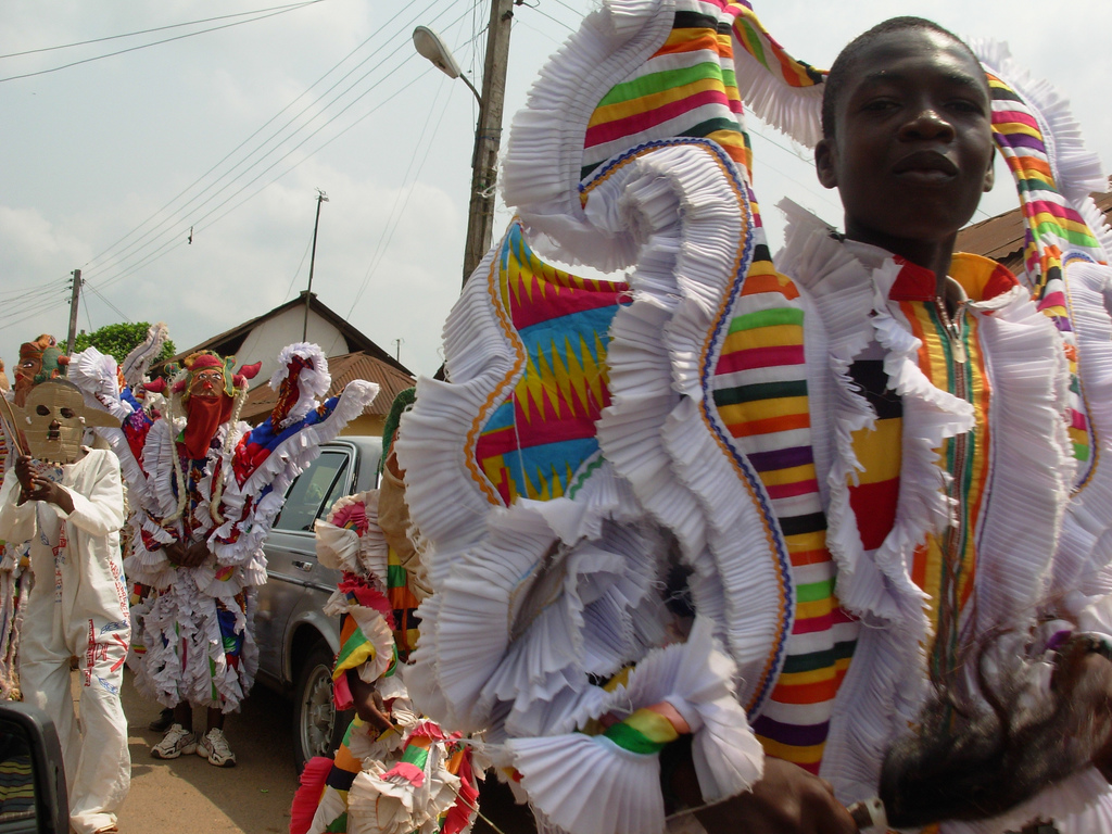 Fancy Dress in Nyakrom in Agona District (en), Ghana